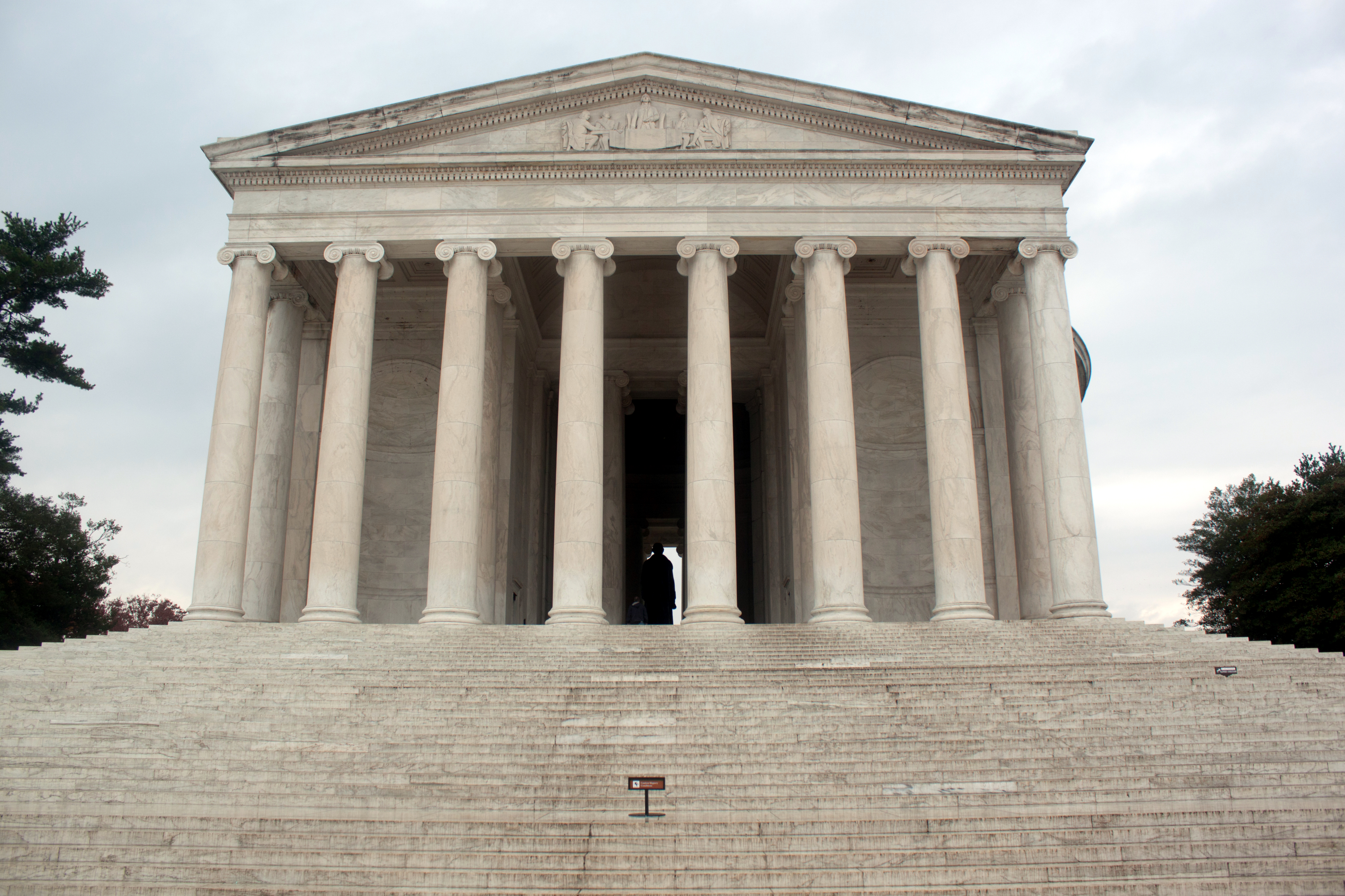 Thomas Jefferson Memorial